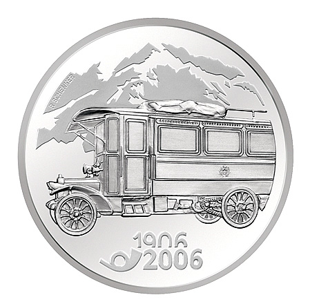 Swiss Commemorative Coin 2006 A CHF 20 obverse